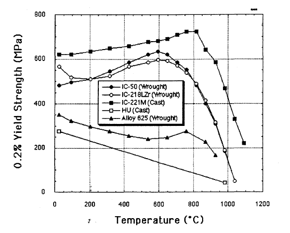 Yield Strength vs Temperature for Nickel Aluminide